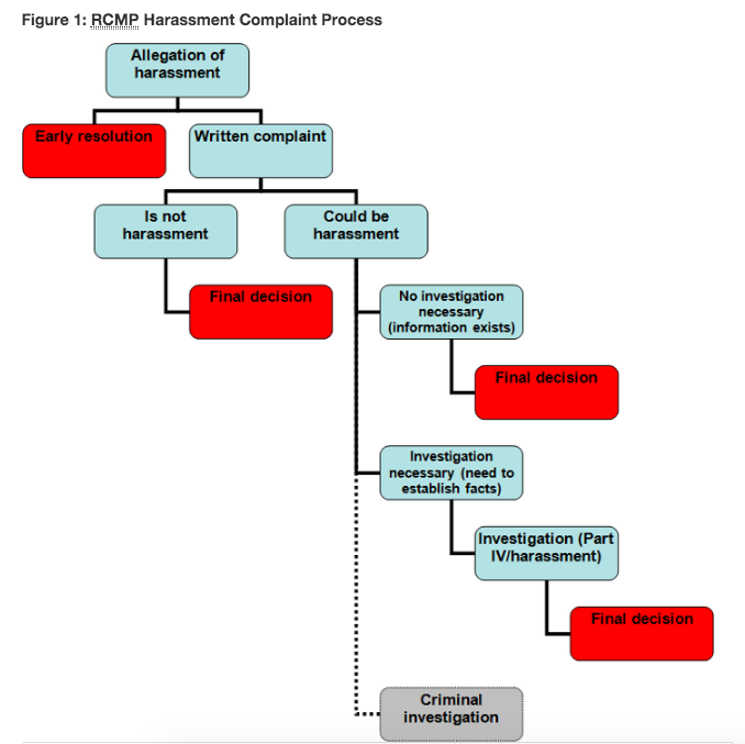 If an allegation of harassment is made and there is an early resolution (e.g. through mediation), this is the end of the process. If a written complaint is made, it is referred to a Human Resources Officer who decides if there is sufficient evidence to warrant a final decision or if there needs to be a further investigation. The Human Resources Officer makes recommendations to the Responsible Officer who makes the ultimate final decision regarding the complaint. If the Human Resources Officer recommends a criminal investigation, they will inform the Responsible Officer who will initiate a Code of Conduct investigation pursuant to Part IV of the RCMP Act.